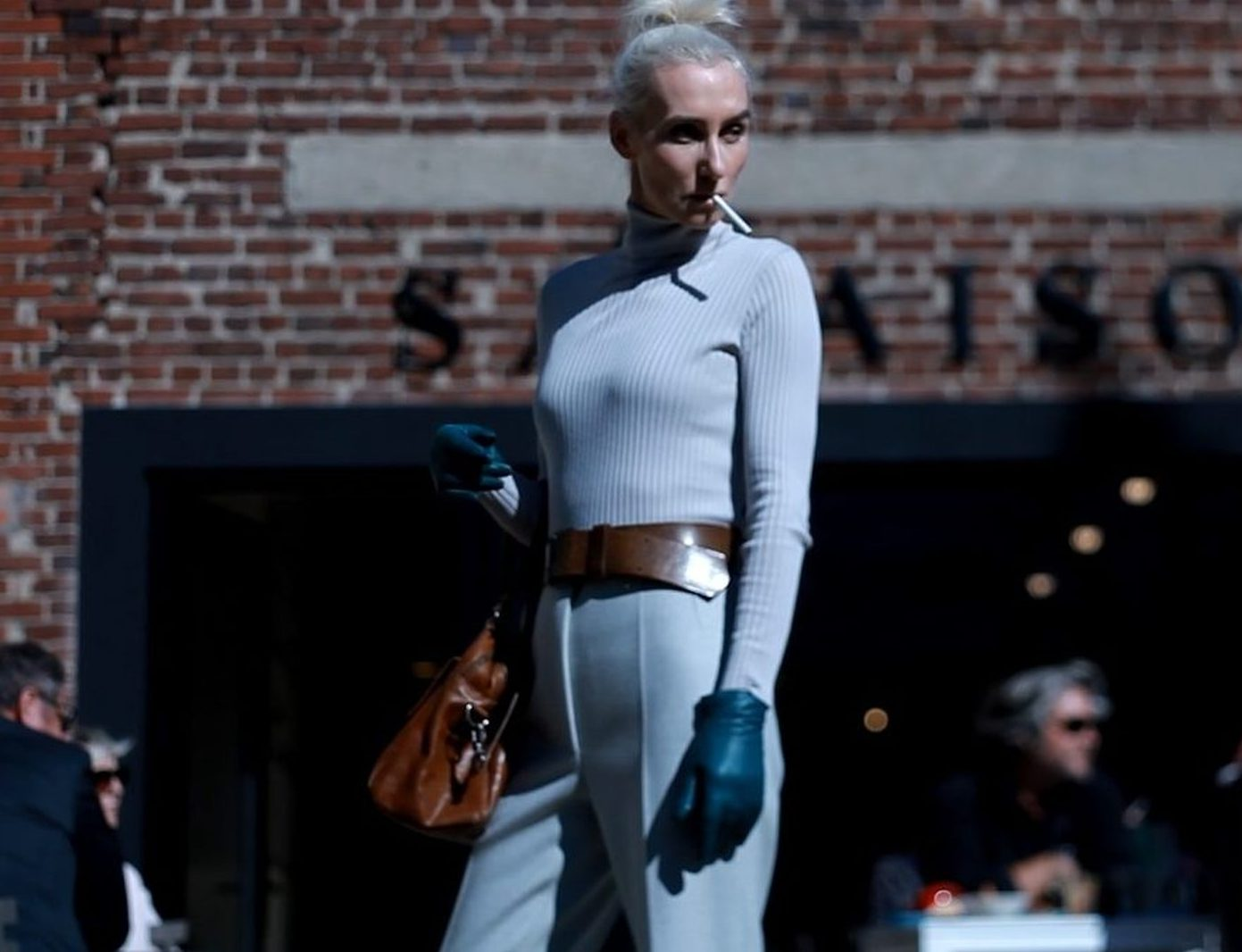 Mika'ela Fisher L'architecte textile